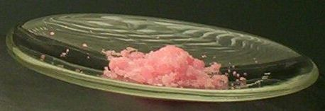 A sample of erbium(III) chloride hydrate photographed under fluorescent lighting. Photo taken November 2004, by User:Walkerma.